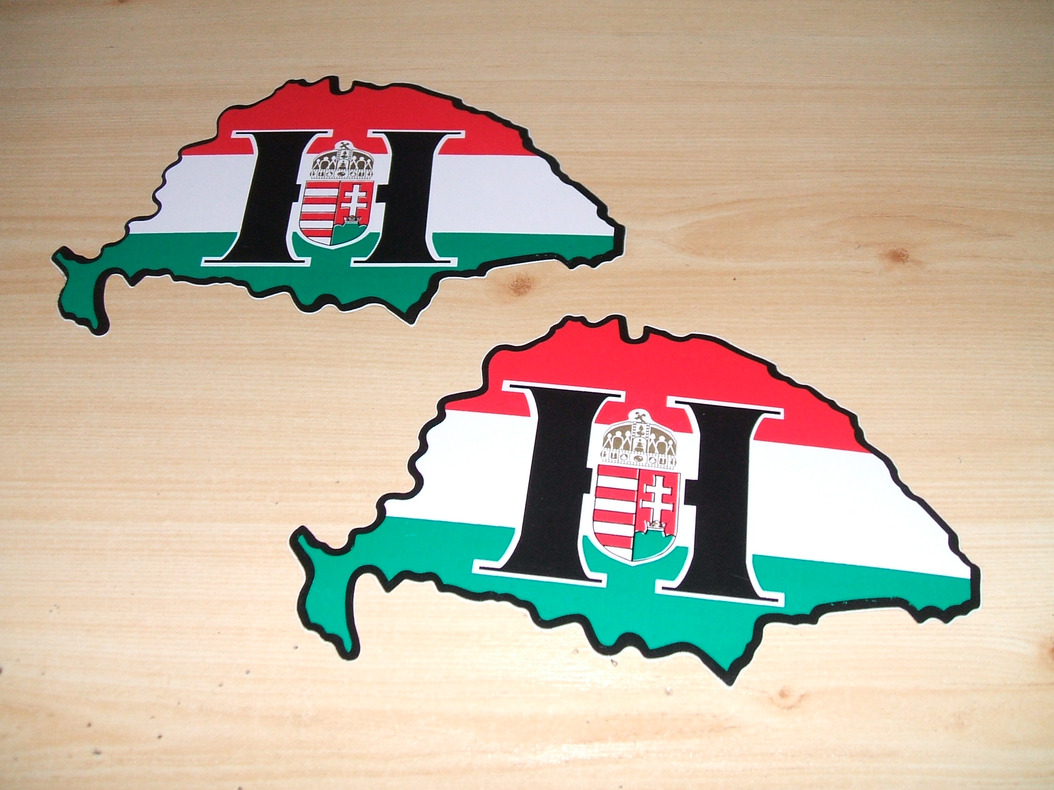 Greater Hungary transfer picture (onto cars)